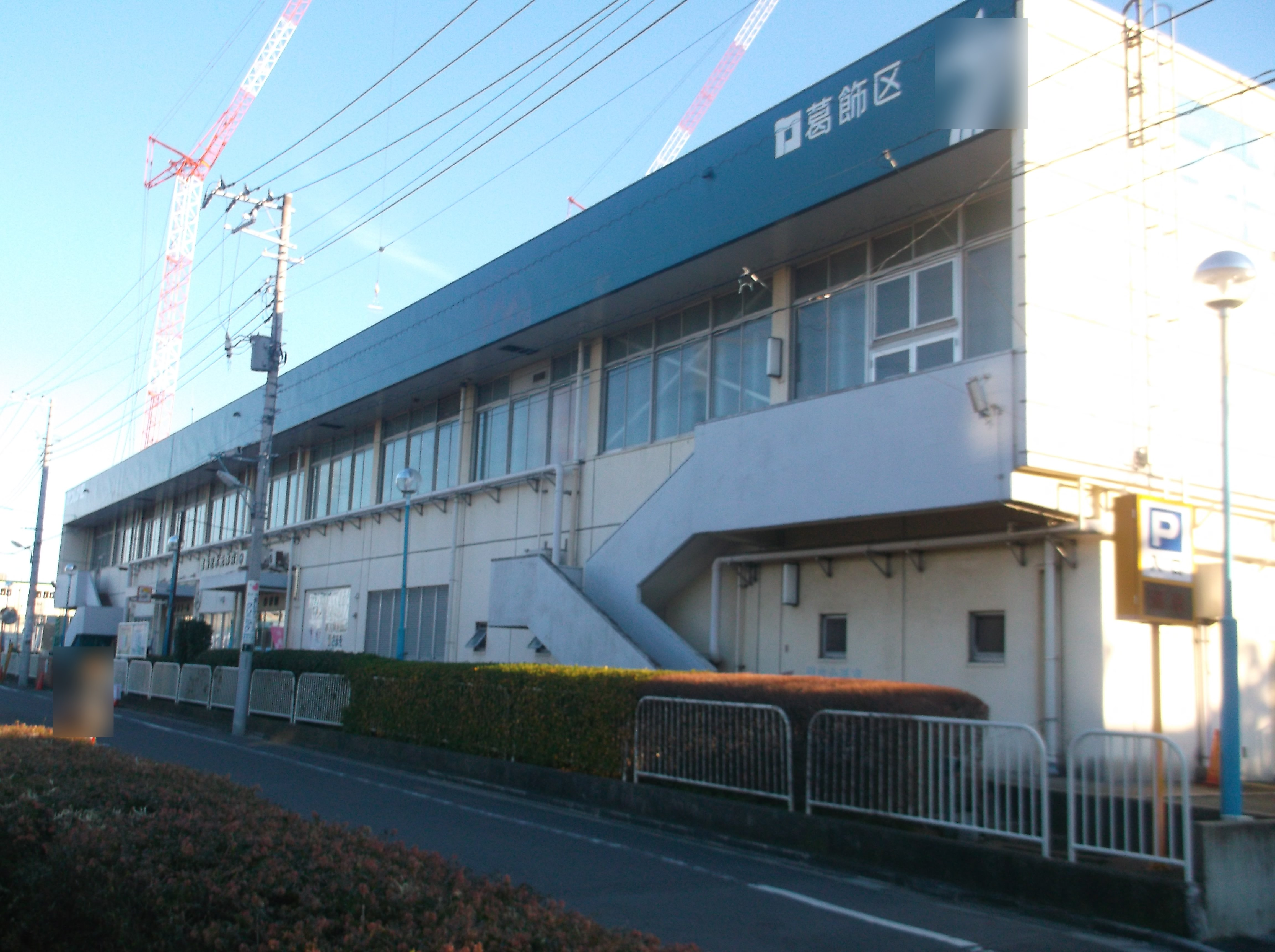 A photo of an entrance of Mizumoto Gymnasium,Mizumoto,Katsushika-ku,Tokyo,Japan.